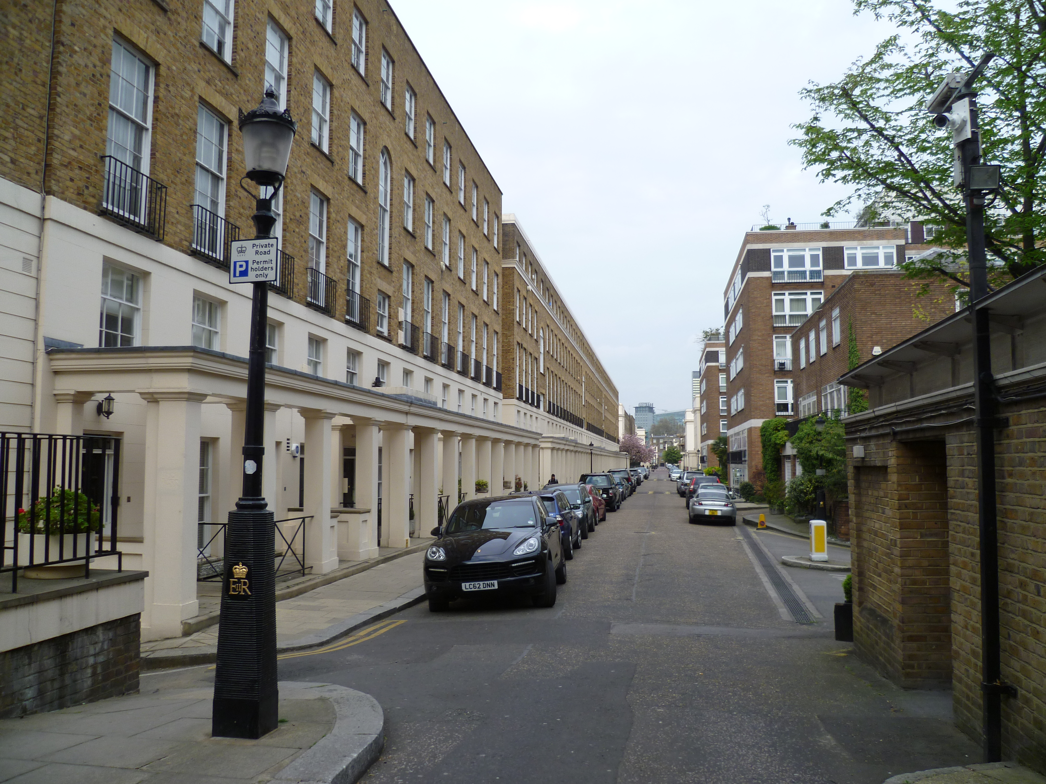 York Terrace West, London 24 April 2015